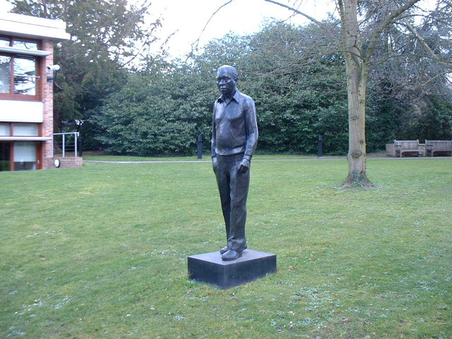 Institute of Astronomy, statue of Sir Fred Hoyle Sir Fred Hoyle (1915-2001) cosmologist, founded the Institute of Theoretical Astronomy here in 1967.